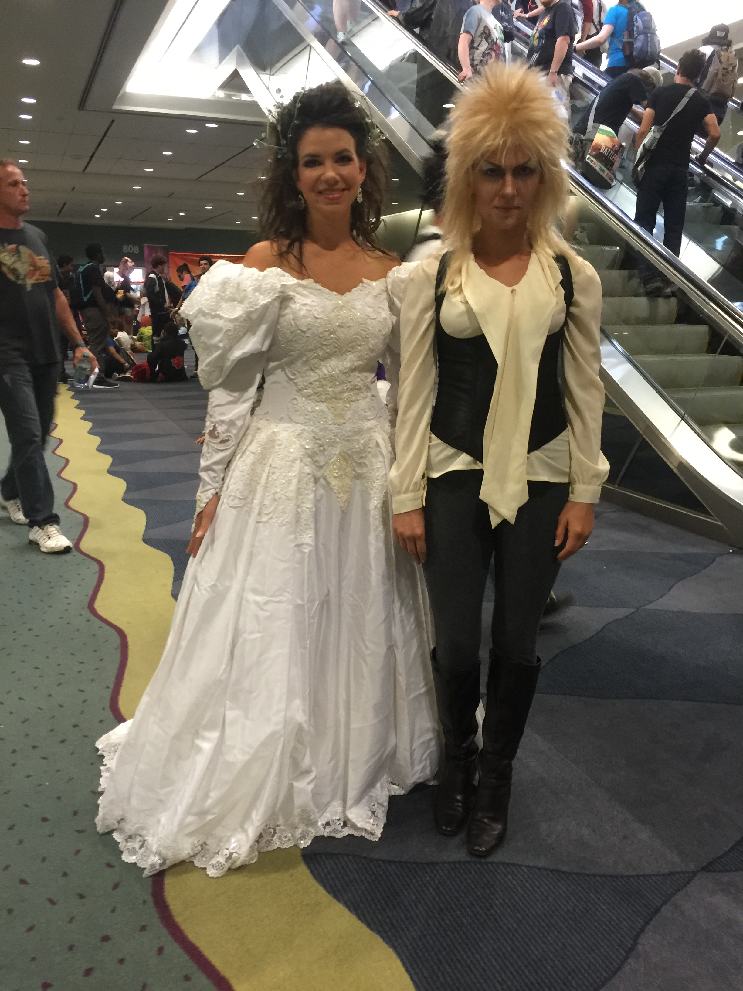 Cosplay at 2016 Fan Expo Canada.